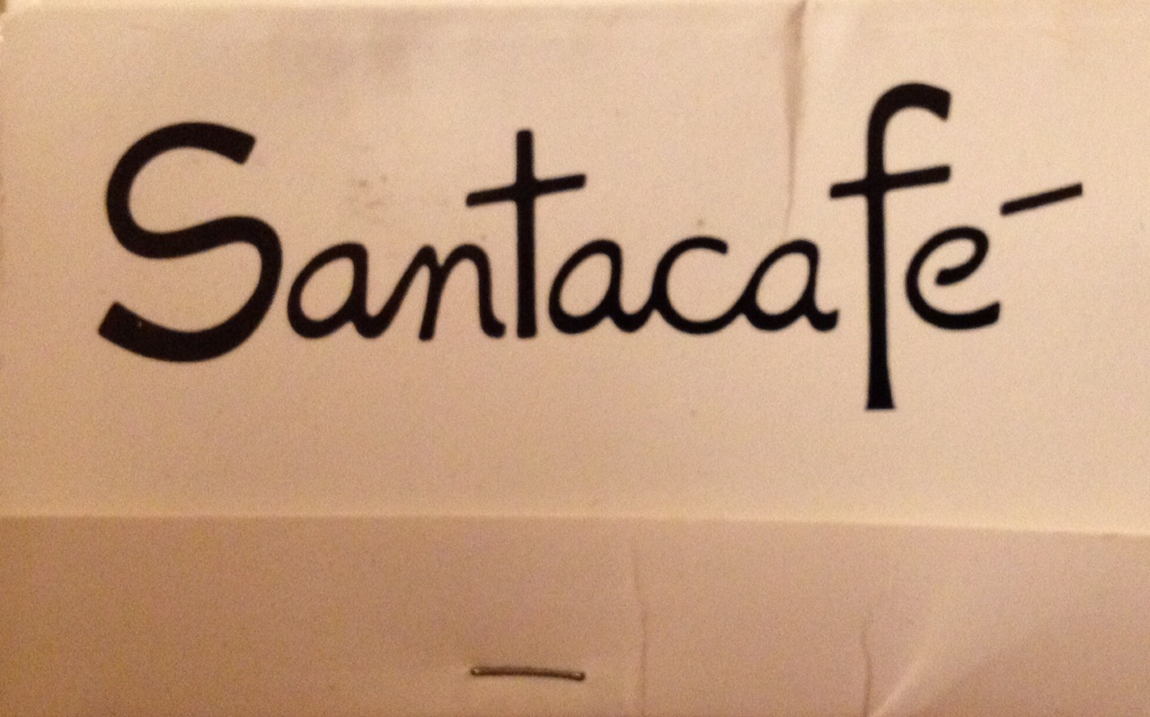 Santacafe matchbook circa 1995